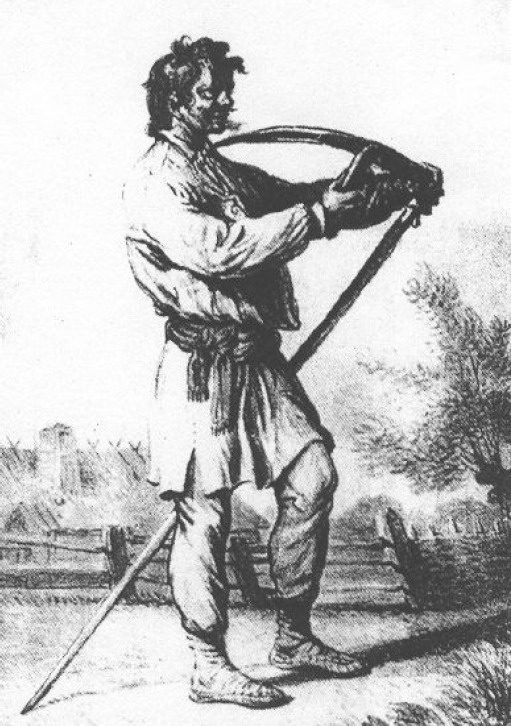 Farmer with a scythe by Jean-Pierre Norblin